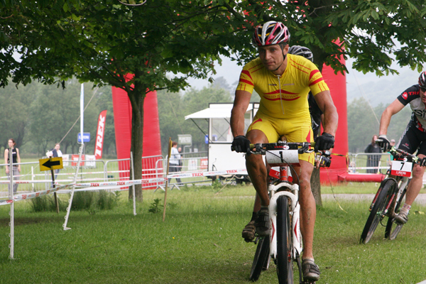 James Ouchterlony competing at the British National Mountain Biking Marathon Championships 2008 at Margam Park.